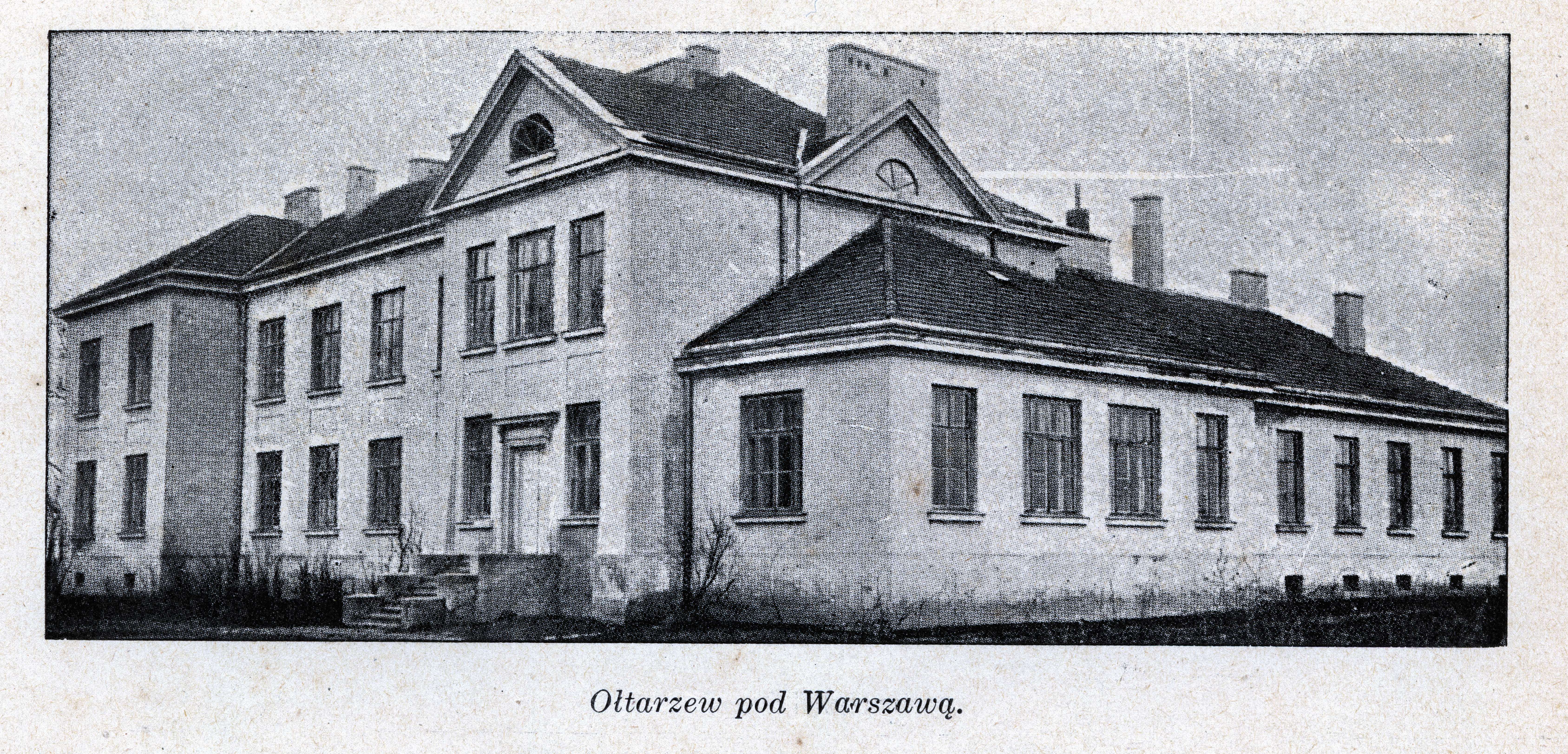 A building of the Seminary (former agricultural school) in Ołtarzew, Poland, before the II World War.